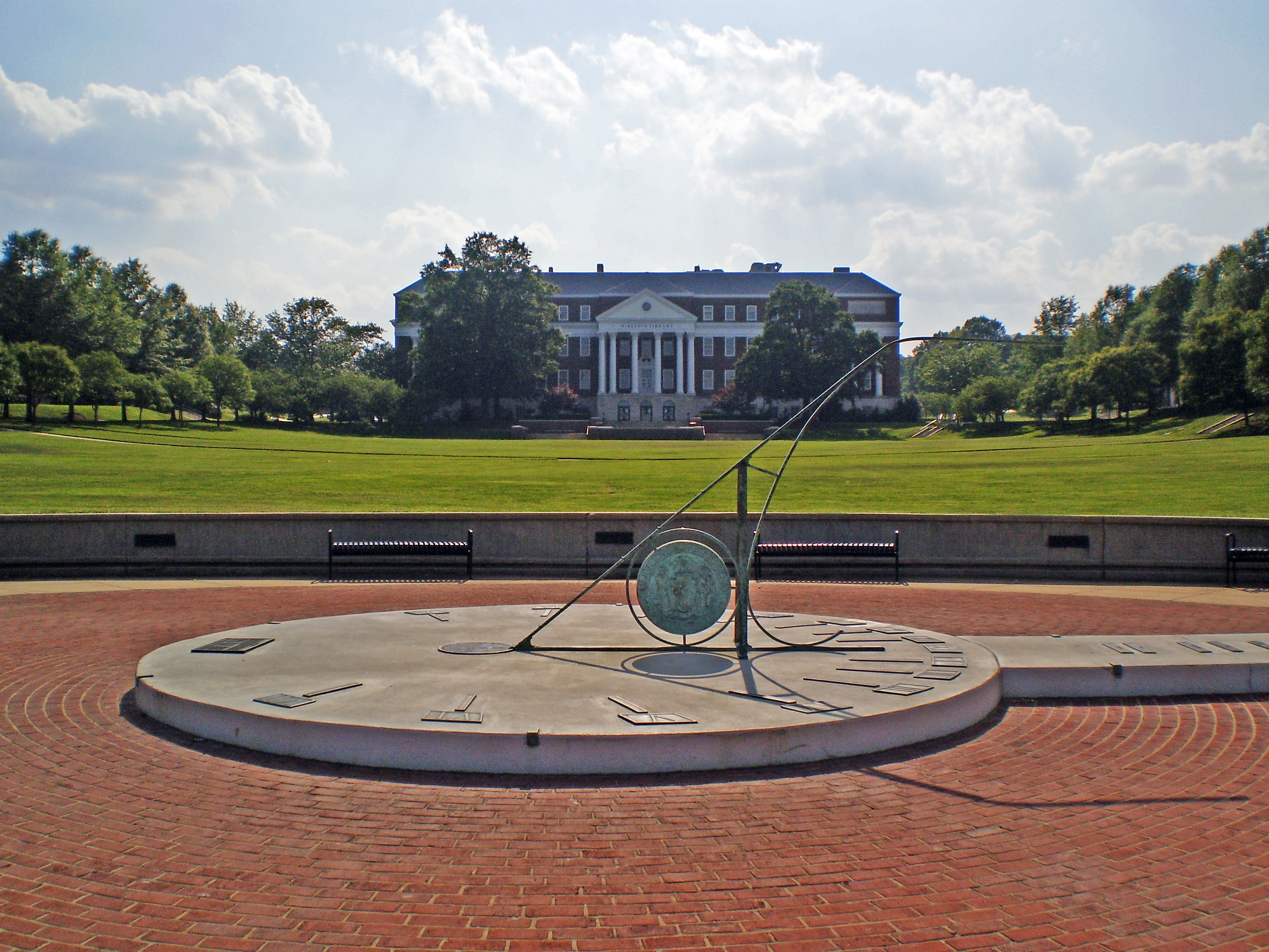 A sundial on the campus of the University of Maryland, College Park, in front of McKeldin library.